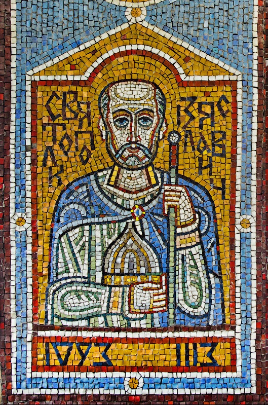 Mosaic of Sviatopolk II (r.1093-1113)